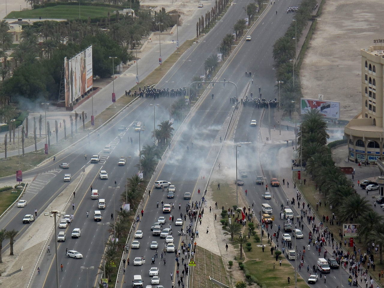 Riot police using tear gas against protesters in Manama